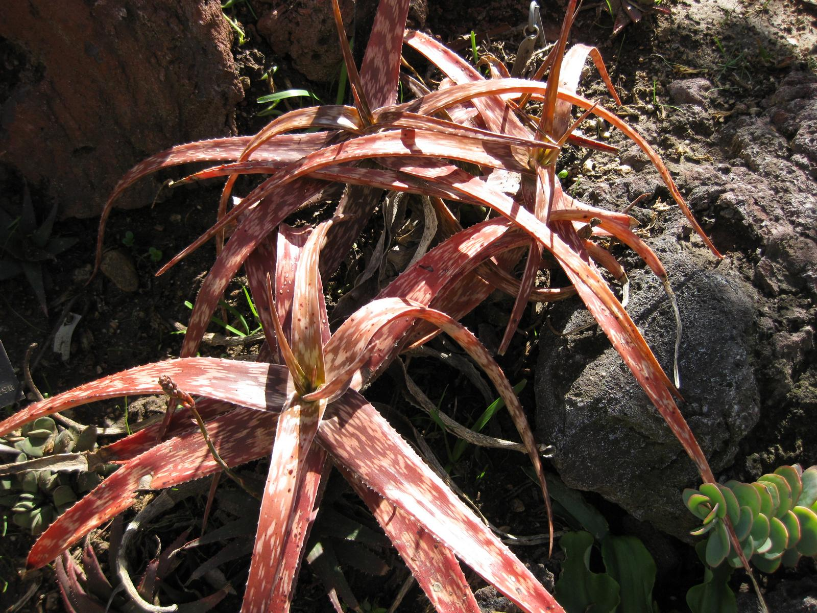 Photographed at Huntington Gardens (Los Angeles, California) in March